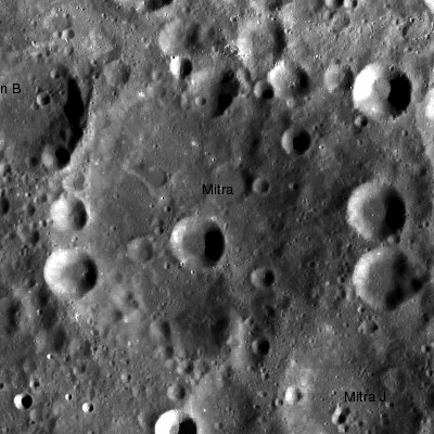 Mitra lunar crater - LROC image